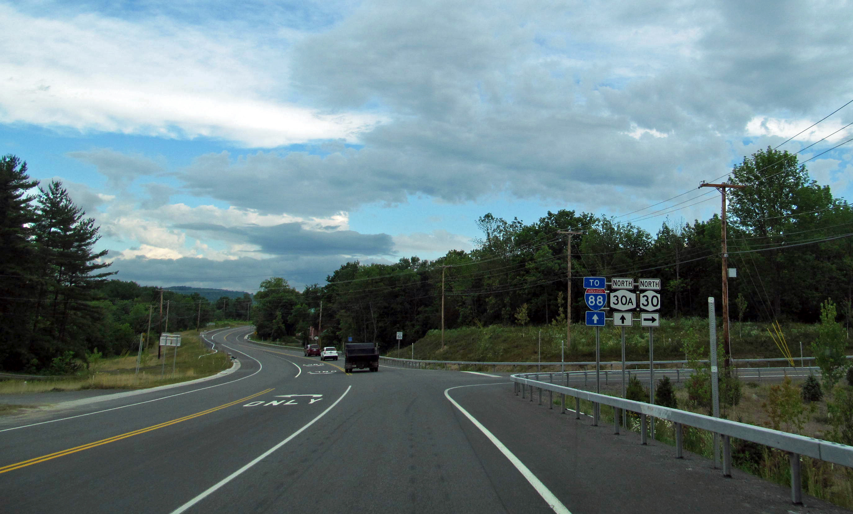 Southern terminus of New York State Route 30A at intersection two miles (3.2 km) north of Schoharie, NY, USA. View taken from New York State Route 30 (NY 30) as it approaches intersection from the south; NY 30 continues north by turning right. Southbound NY 30 comes into the intersection via a long downgrade, descending almost 500 vertical feet (150 m) in the mile (1.6 km) north of this intersection, requiring a stop sign. Until the late 2000s the intersection was more oblique and accidents frequently occurred when traffic on southbound NY 30 realized, too late, that they had to stop and traffic on northbound NY 30 and 30A did not. Heavy trucks have also been banned from using NY 30. Nevertheless, in October 2018 this became the site of a stretch limo crash that killed 20 people when the driver, coming in from the right, failed to stop at high speed and went into the parking lot whose entrance is seen at left, where the limo struck an SUV. Two pedestrians in the parking lot, as well as all in the limo, died.